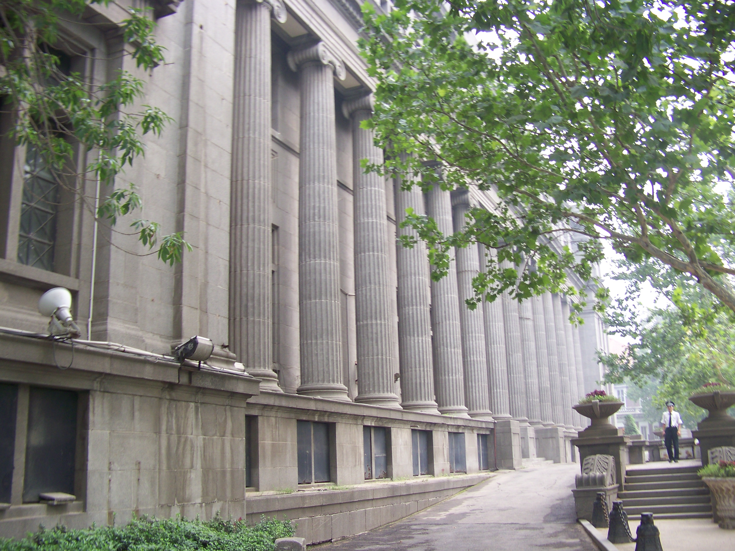 Former Kailuan Coal Mining Administration building in Tai'an Dao No. 5, Heping District, Tianjin